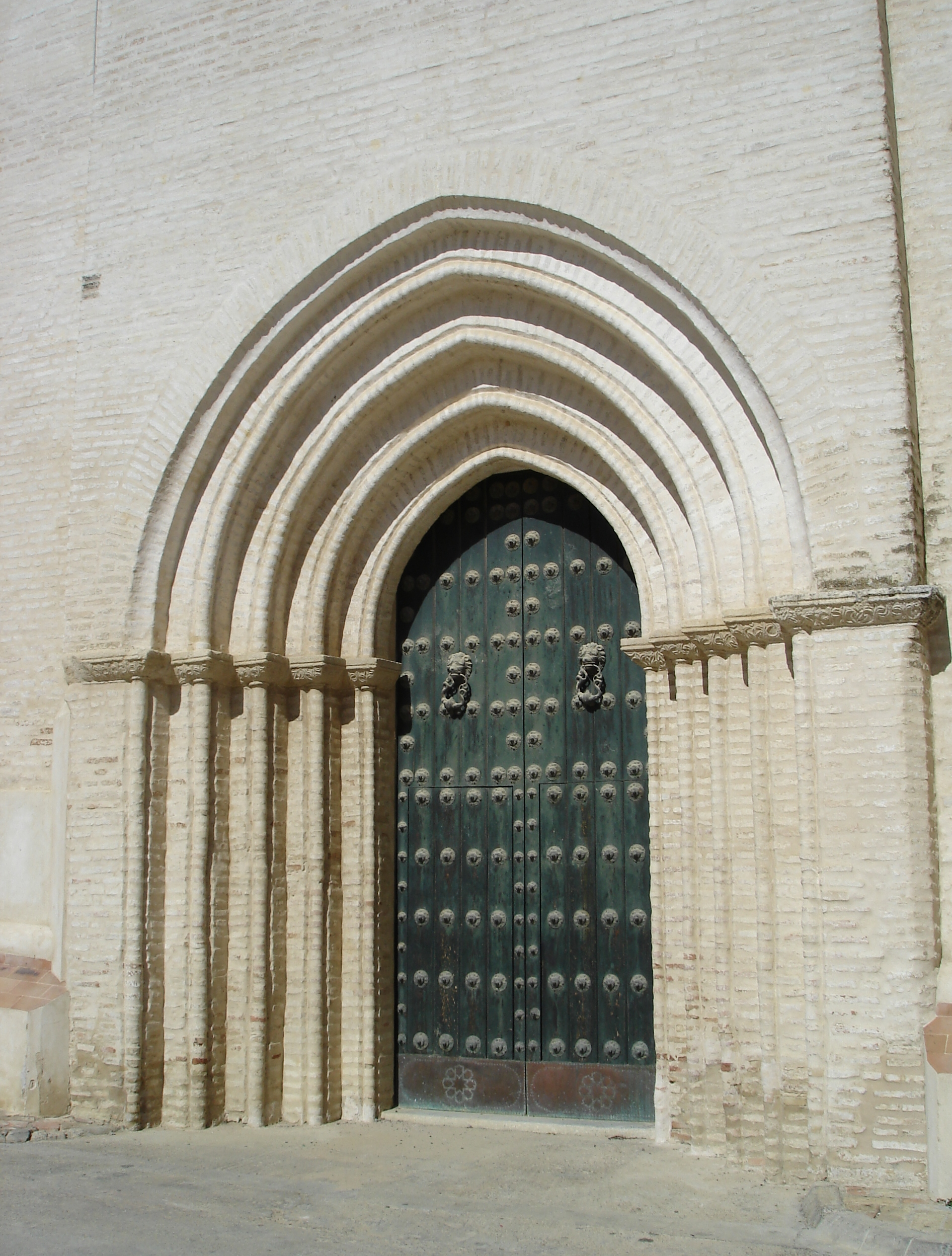 One of the entrance doors of Santa María de la Oliva Church in Lebrija (Seville). Photo by Asterion talk to me